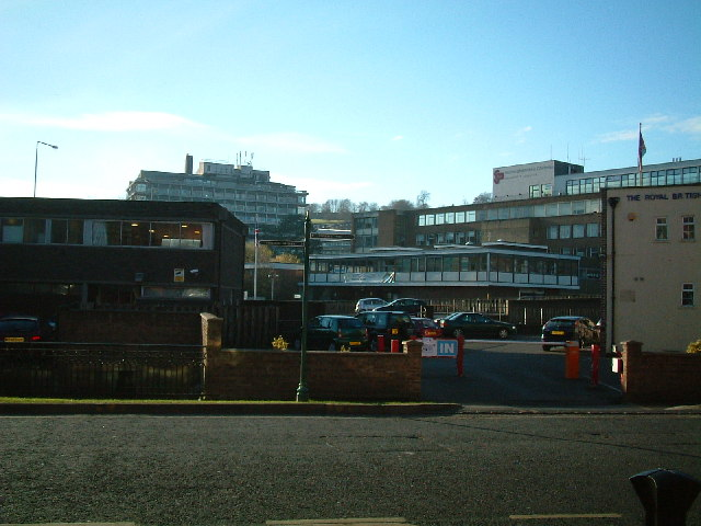 High Wycombe. Taken from outside Wycombe Swan Theatre, St. Mary Street. Fire Station to left, Royal British Legion to right and Wycombe Hospital on hill behind.